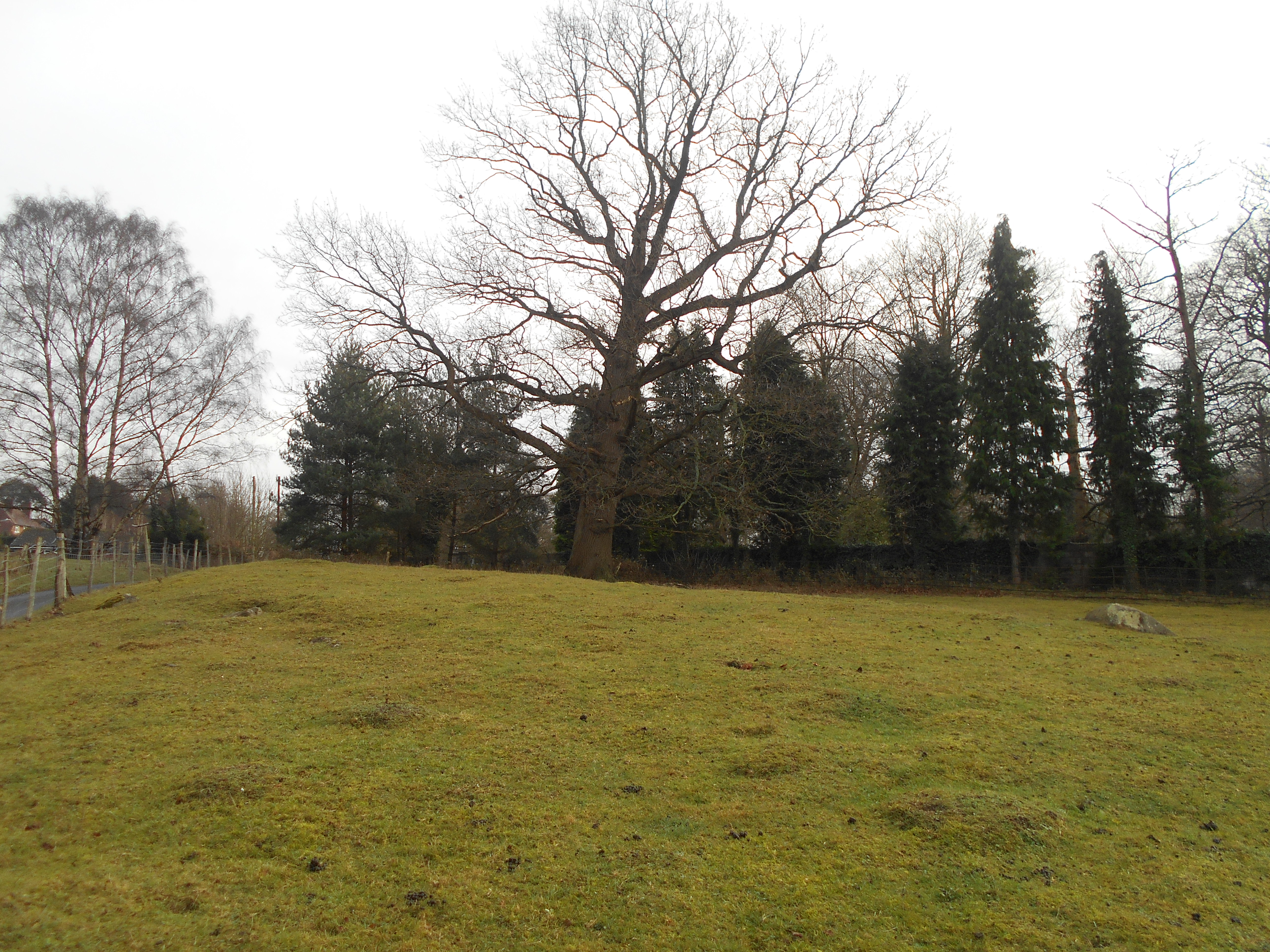 Addington Long Barrow, one of the Medway Megaliths, in the village of Addington, Kent. The barrow is cut in half by a modern road. This photo is of the portion to the south of the road; most of the sarstens are on the other side of the road, but the ridge of the barrow mound and the odd sarsten are visible to the south.